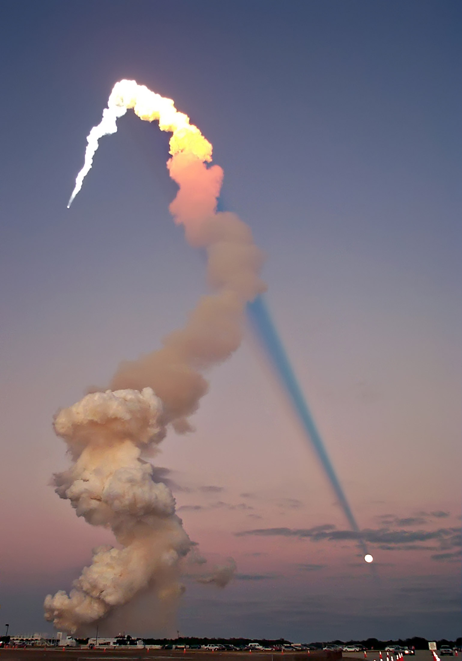 Shuttle Launch at Sunset (Atlantis, February 7th, 2001, STS-98). The sun has set just behind the camera, so only the upper part of the plume is in the glare of the sun. It casts a shadow through the Earth's atmosphere that seems to stretch towards the moon, which is nearly full and thus almost exactly opposite the sun in the sky. The Earth's shadow is also visible, as a dark band of sky below the Moon.